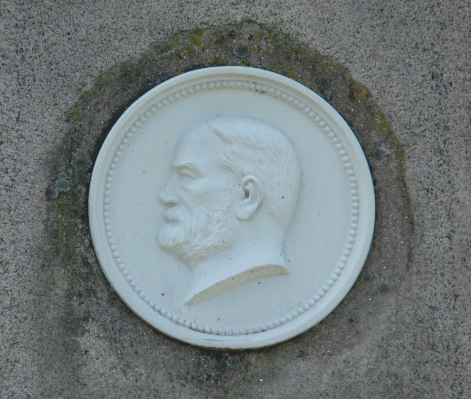 Carl Venier's grave in Klášterec nad Ohří